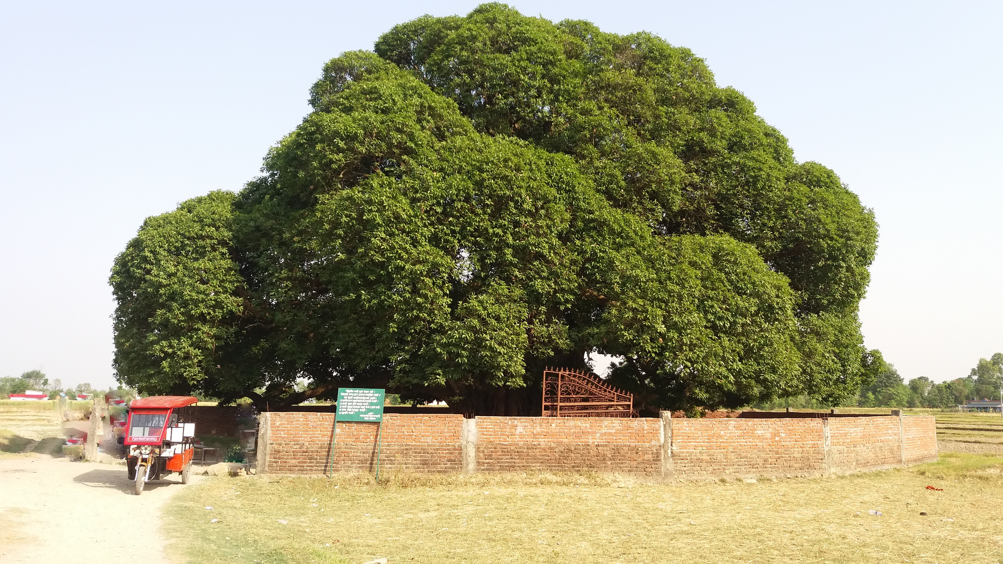 pc : sagar bhattarai